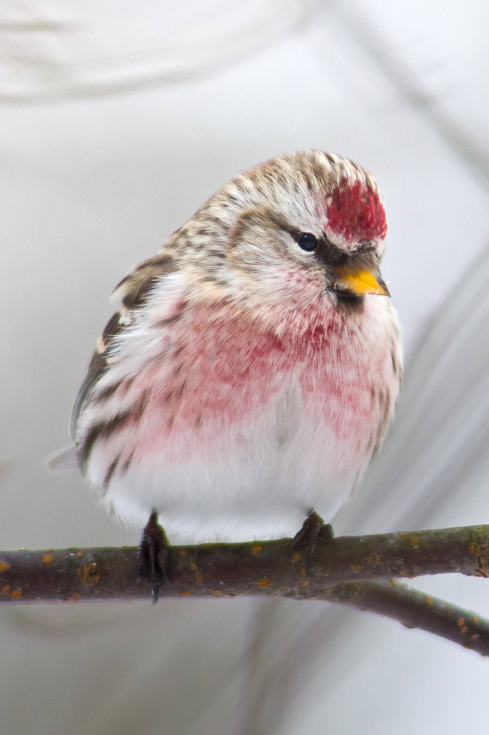 Mealy Redpoll Acanthis flammea, male; Kotka, Finland